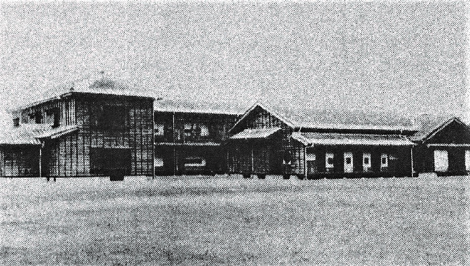 sinburyou